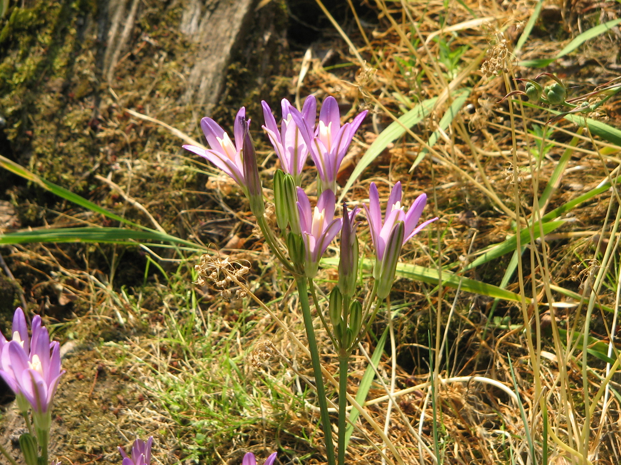 Brodiaea californica